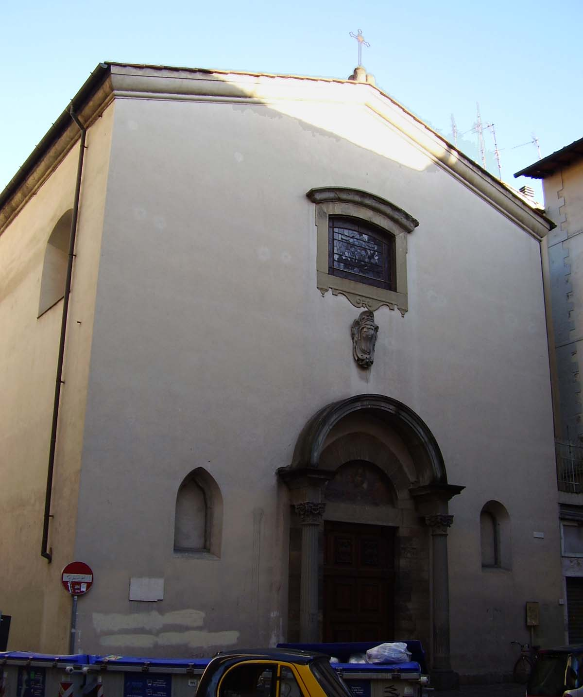 San Simone, church façade, in Florence, Italy